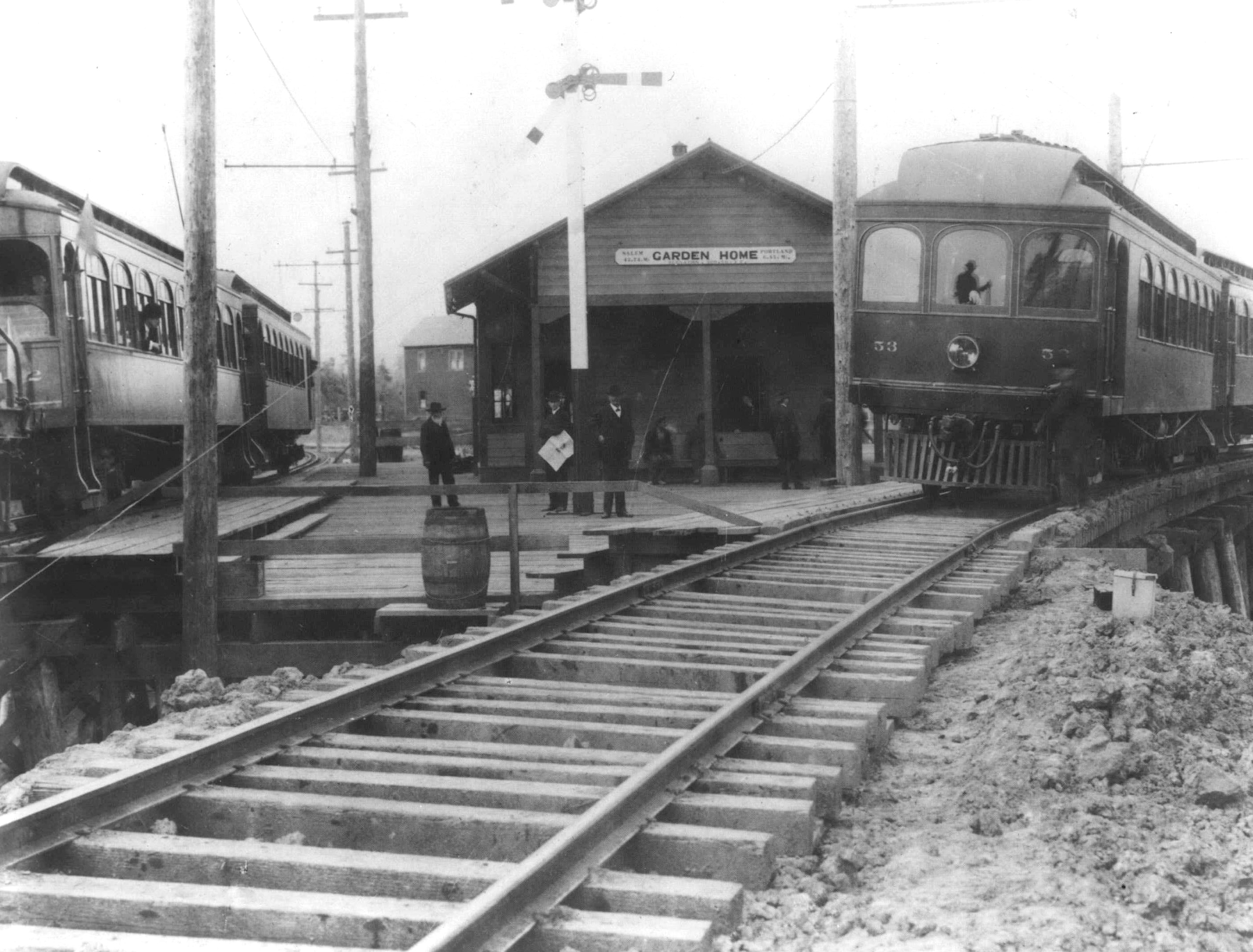 Garden Home Railway Depot circa 1911. Historical images of Beaverton, Oregon.